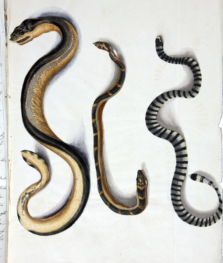 Description: Page from the journal of Henry Walsh Mahon, surgeon aboard HMS Samarang. "Although not equipped with poisonous fangs, one of these snakes bit an officer of the HMS Woolf who died within a few hours." Date: 1846 Our Catalogue Reference: ADM 101/119/3/10 This image is from the collections of The National Archives. Feel free to share it within the spirit of the Commons. For high quality reproductions of any item from our collection please contact our image library.